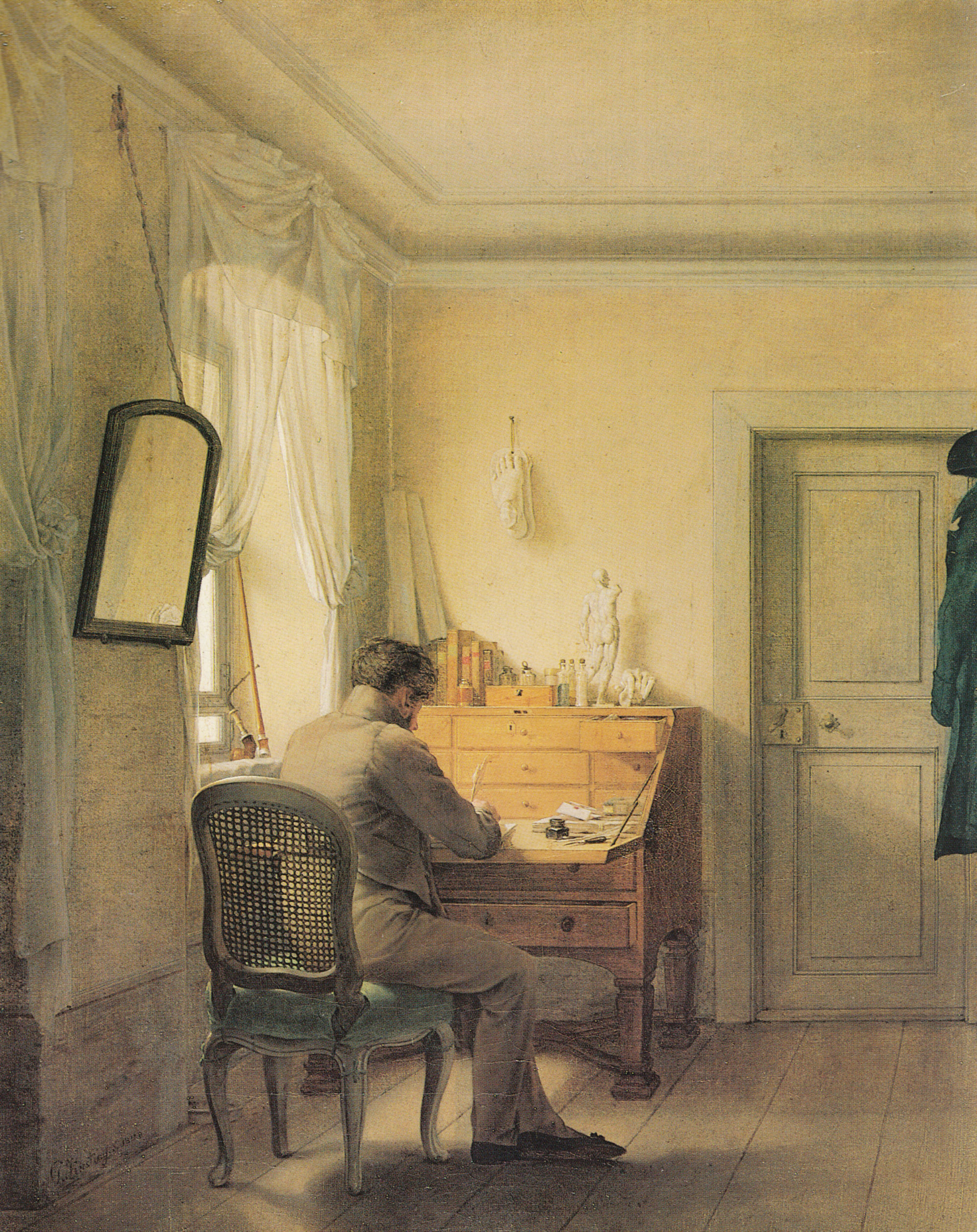 Artwork